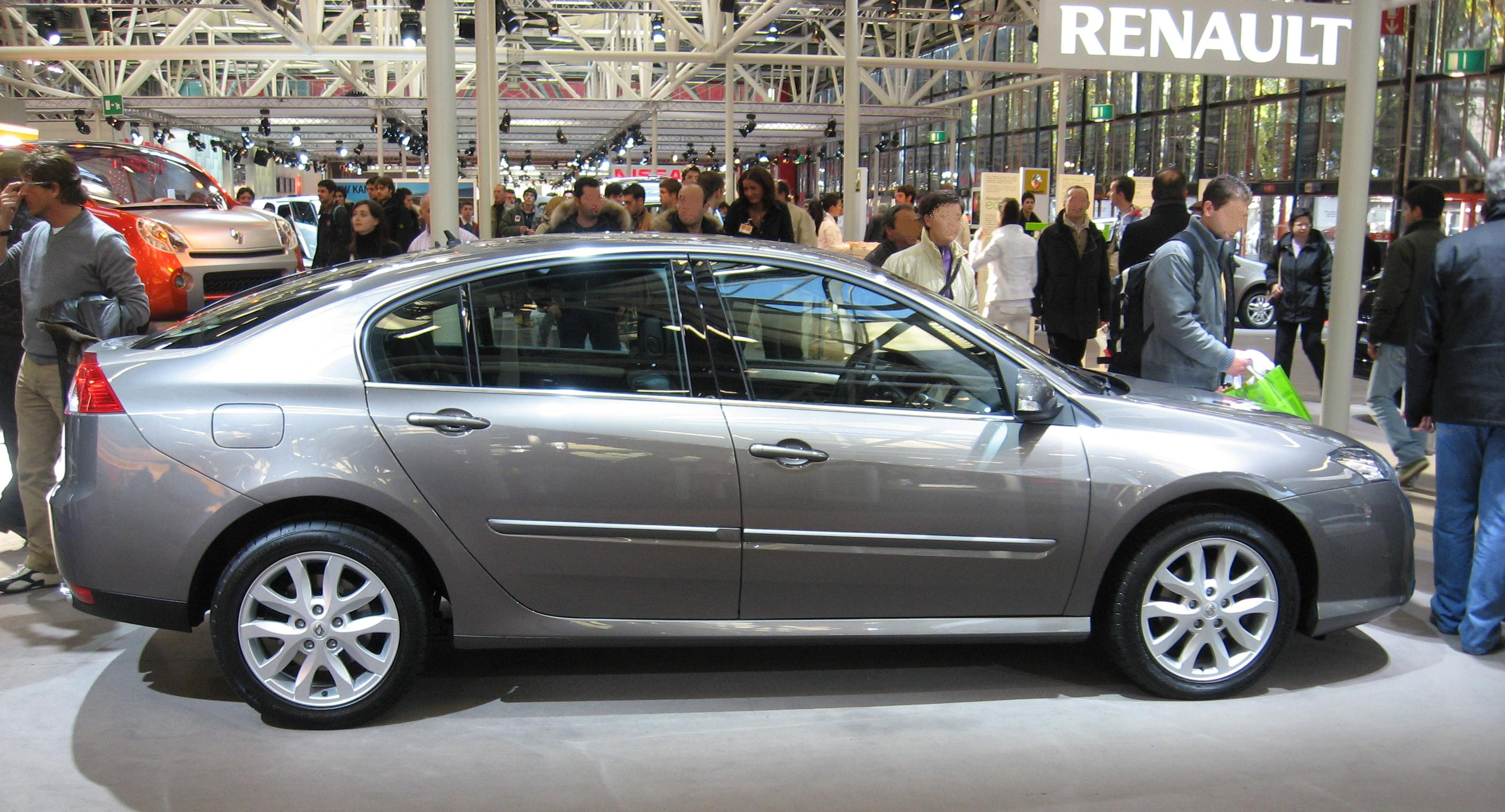 Subject:Renault Laguna III Author:Luc106 Date:December 13th, 2007 Event:Motor Show Bologna 2007 Place/Country: Bologna, Italy I release all rights in the public domain.